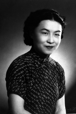 Yang Jiang, is a Chinese playwright, author, and translator. She has written several successful comedies, and was the first Chinese person to produce a complete Chinese version of Don Quixote from the Spanish original.